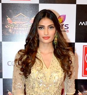 Athiya Shetty